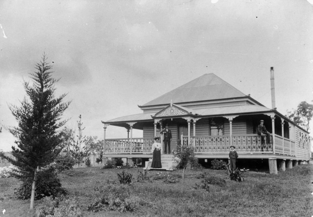 Home of the McLean family in Whichello near Crow's Nest, Queensland, ca. 1903. Short ridge roofed home in Whichello. The verandah extends from the house on three sides and is ornately decorated with fretwork at the entrance and along the verandah posts. A man and woman stand at the entrance and two boys to the right of the picture.